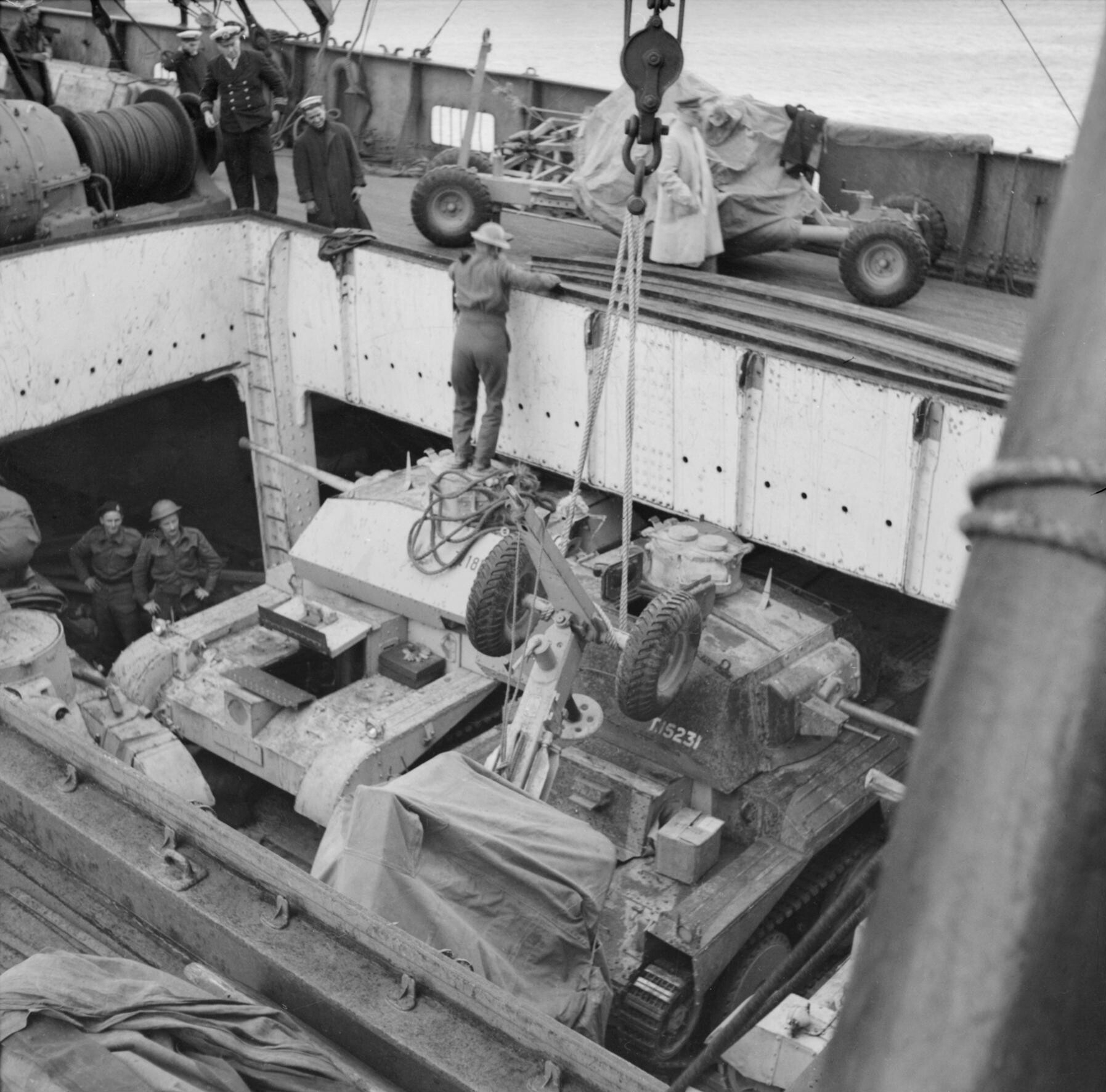 The British Army on Malta 1942 Cruiser tanks and a 40mm Bofors anti-aircraft gun being unloaded from a ship in Grand Harbour, 24 March 1942.